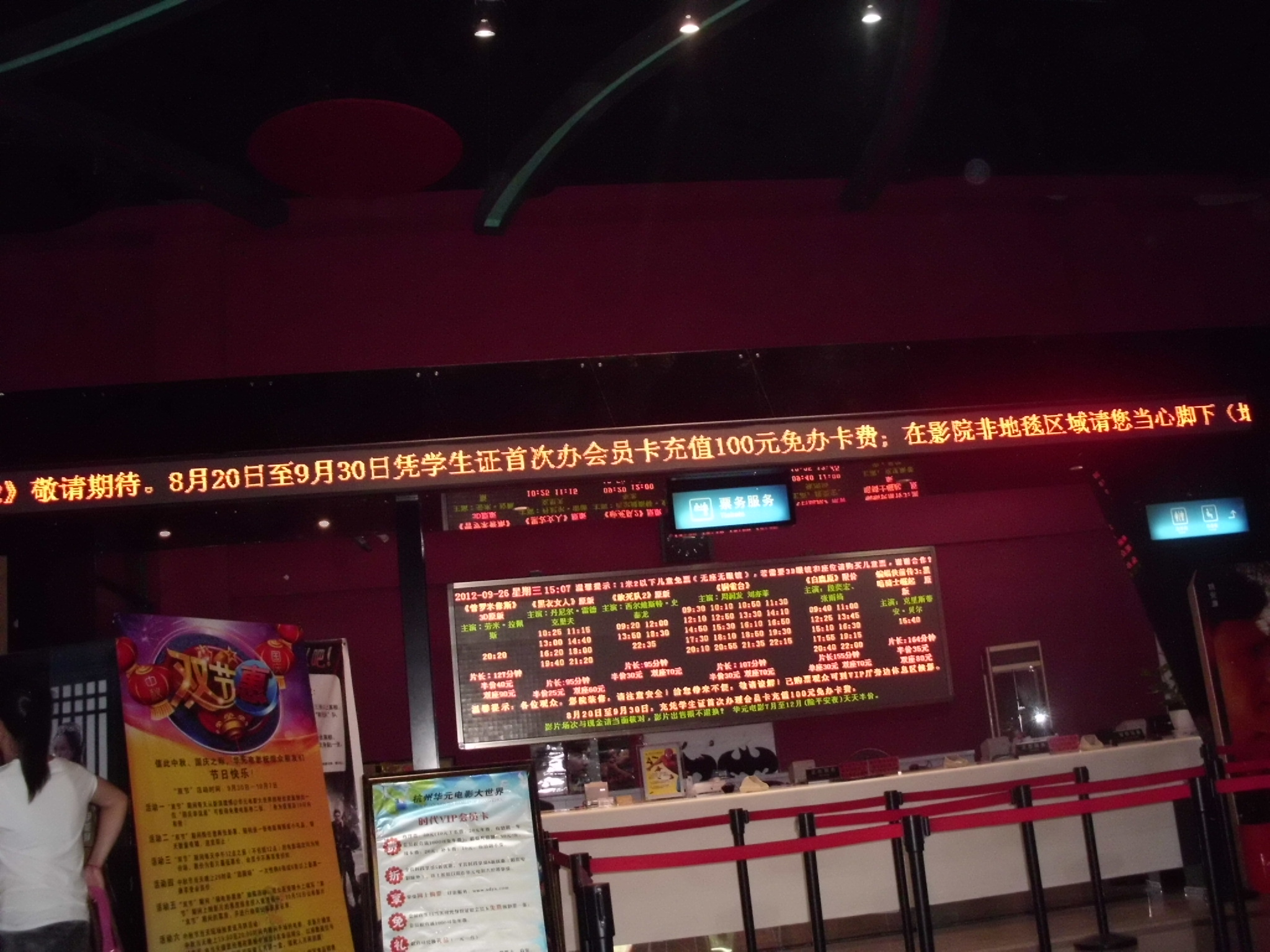 Huayuan cinema